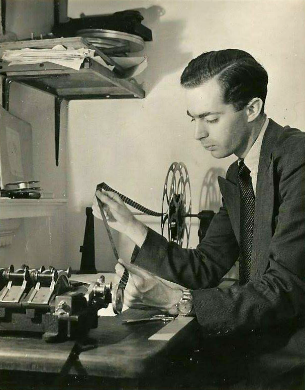 Photo of Don Challis in his sound studio at Pinewood Studios, 1948-1976